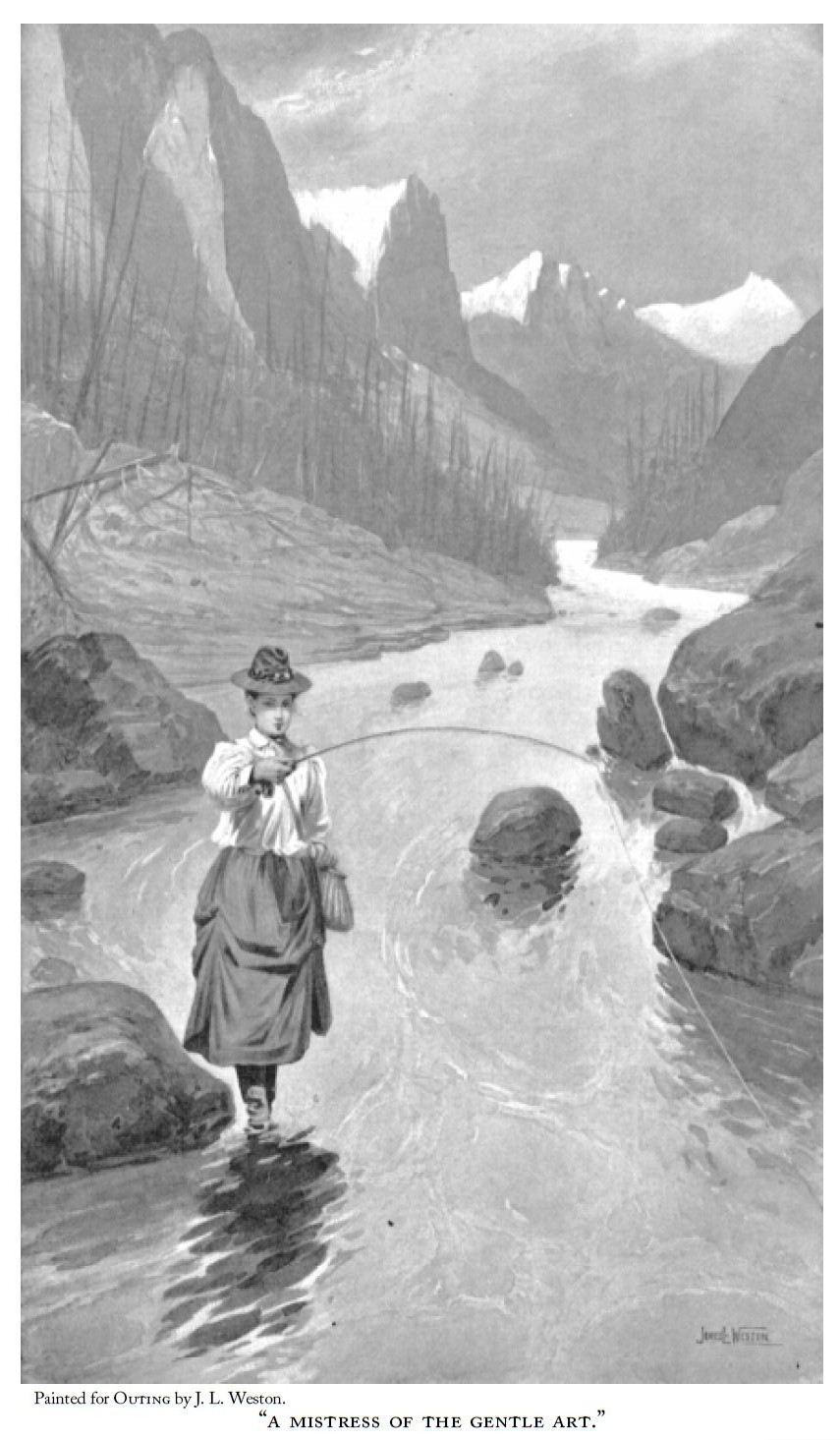 A Mistress of the Gentle Art, a drawing in the article A Woman's Fishing in Yellowstone Park by Mary Towbridge Townsend, Outing Magazine, May 2, 1897